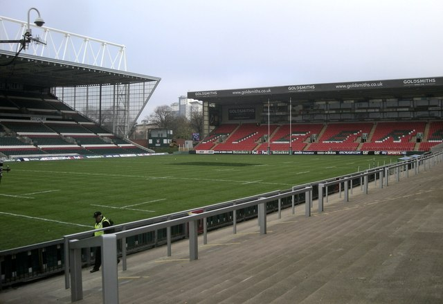 Leicester-Welford Road